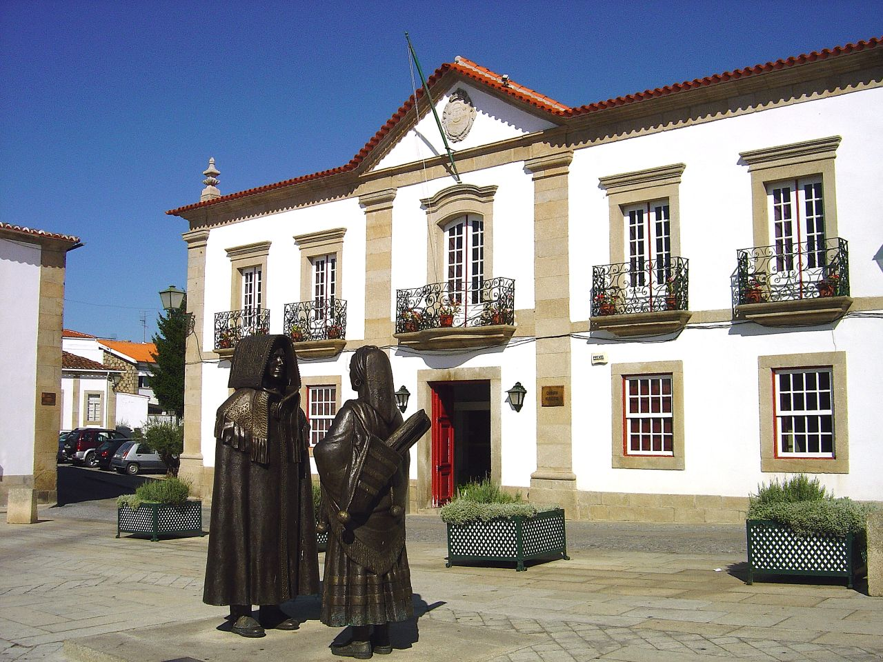 See where this picture was taken. [?]